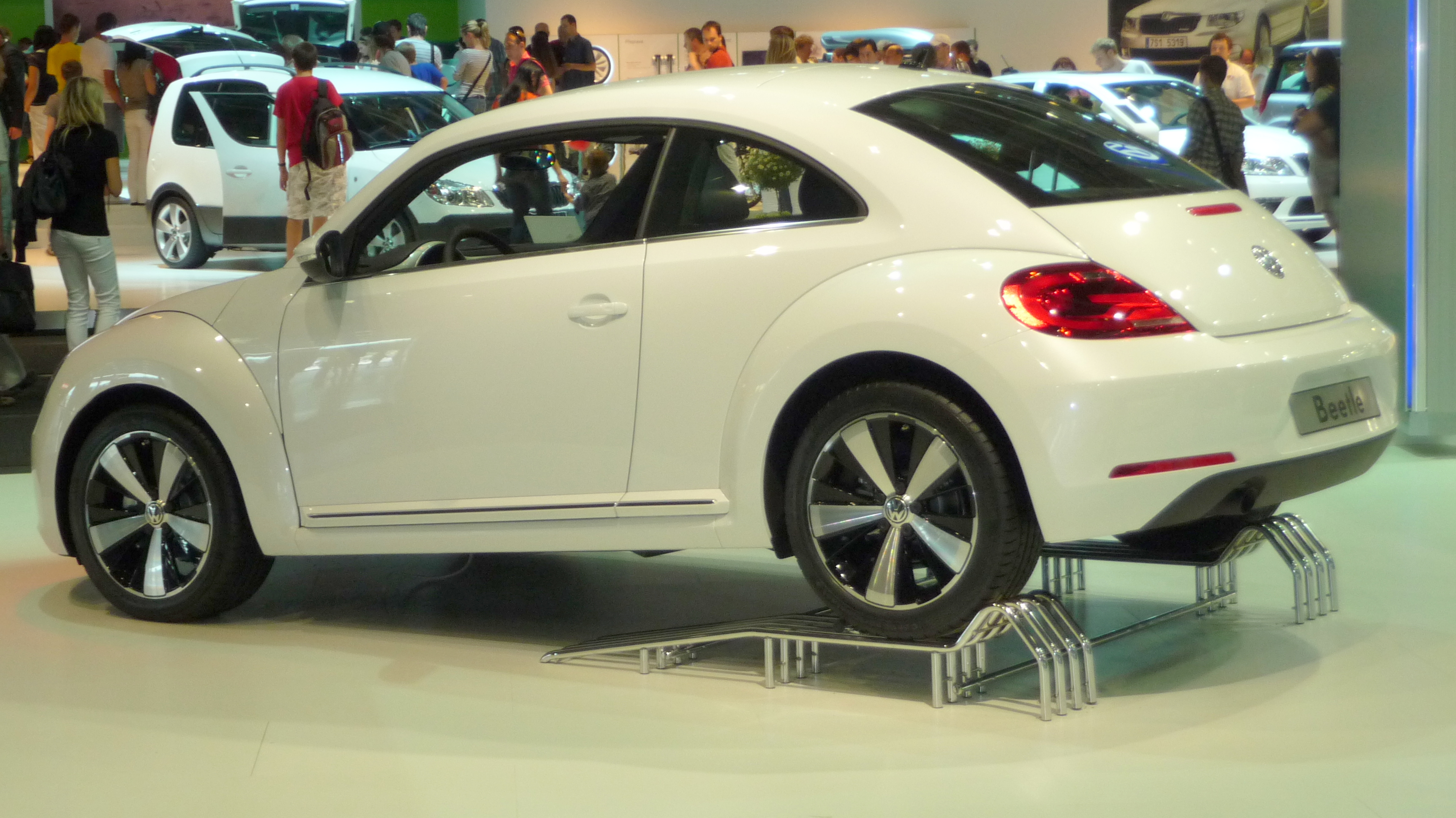 Volkswagen Beetle (new), Autosalon Brno 2011, The Brno Exhibition Grounds -10 -5 -3 -2 ◄ ► +2 +3 +5 +10